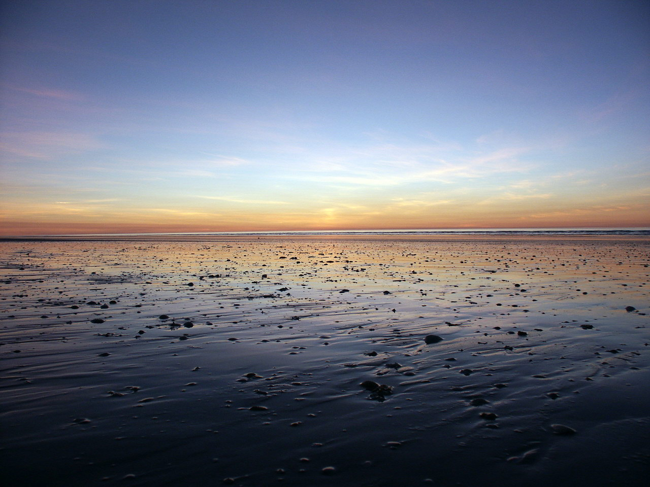 Sunset at low tide - Eighty Mile Beach, Western Australia.